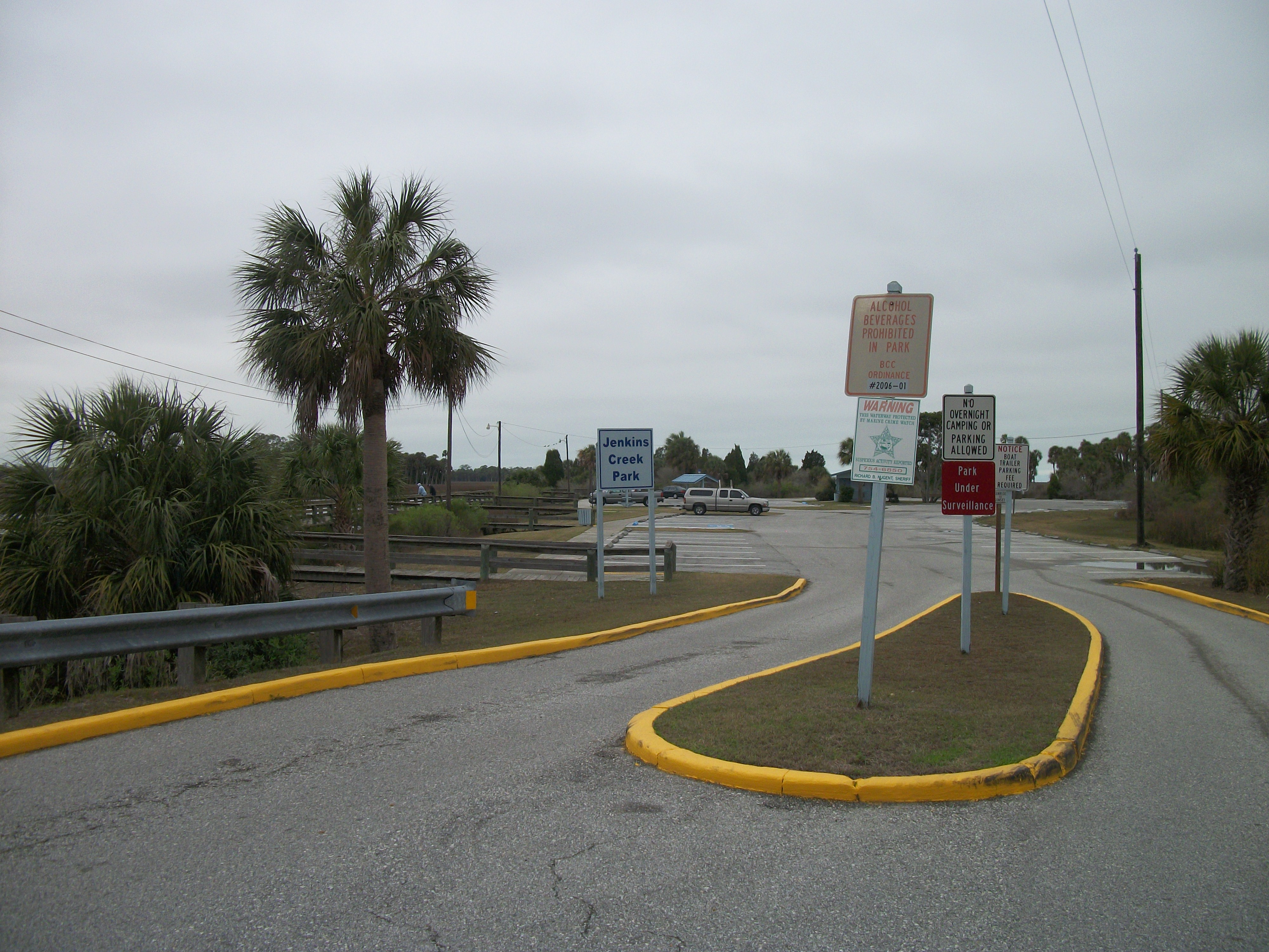 Entrance to the boat launching area and one of the fishing piers of Jenkins Creek Park, in Hernando Beach, Florida.